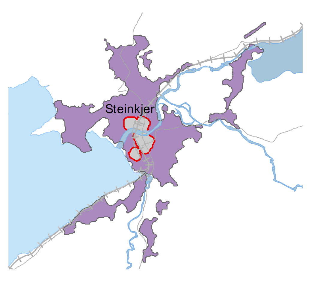 Urban area of Steinkjer